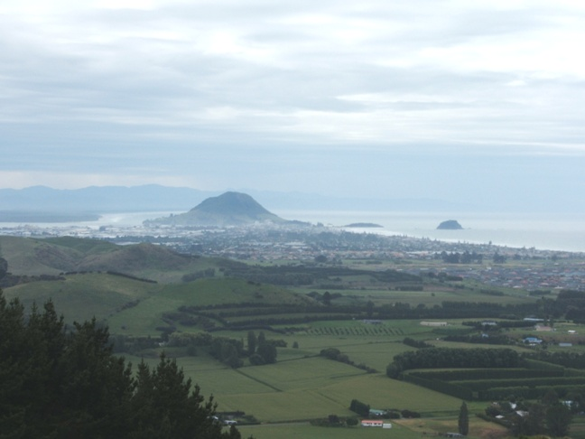 View from Papamoa|Papamoa Hills, New Zealand, by Stephen Morris